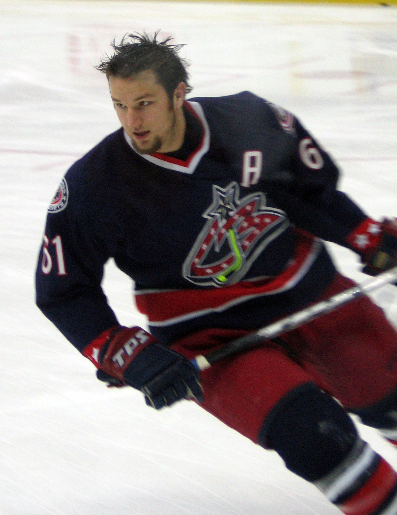 Picture taken before December 22, 2006 game against Vancouver.